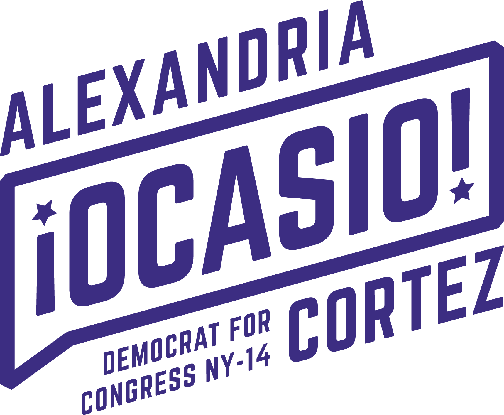 Logo of Alexandria Ocasio Cortez campaign.